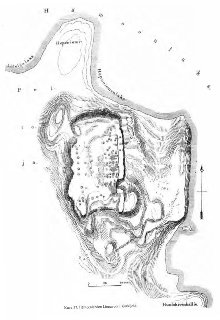 Hämeenlahti Hillfort in Kurkijoki, Karelia, illustrated by Hjalmar Appelgren in 1891